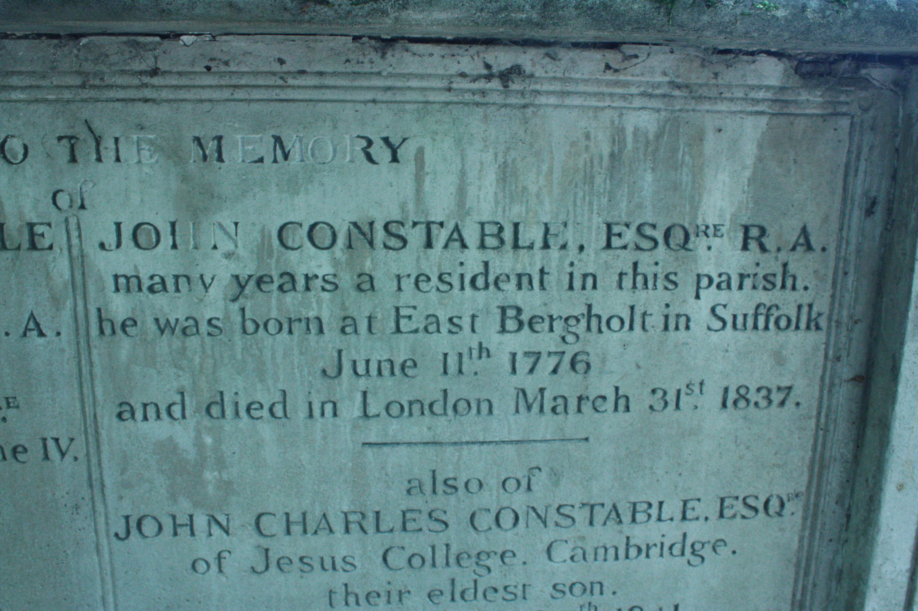 The inscription on John Contable's tomb